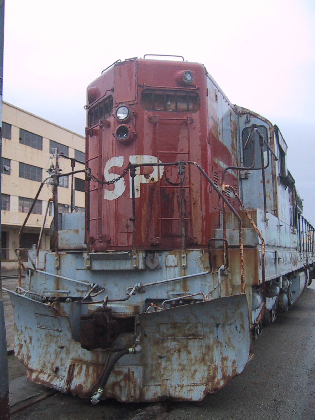 SP 4450, an SD9 named "Huff"